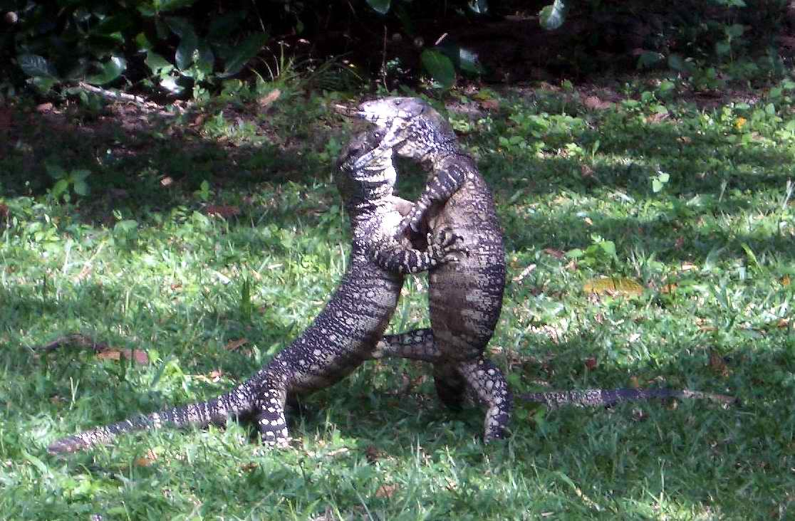 I took this photo of Lace Monitors fighting in my backyard in Cooktown, Australia